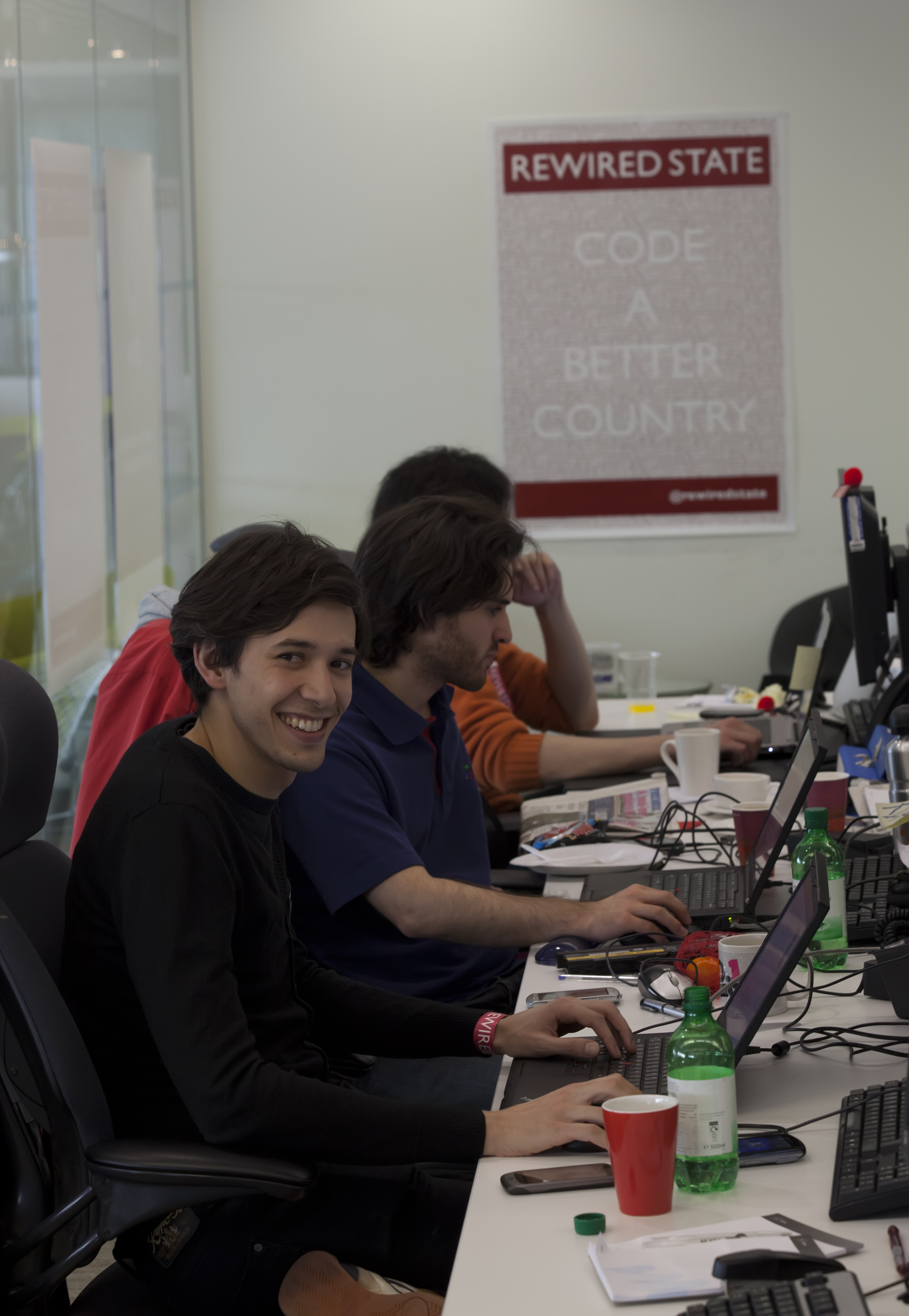 A group of geeks at the Rewired State "National Hack the Government Day" in 2011.